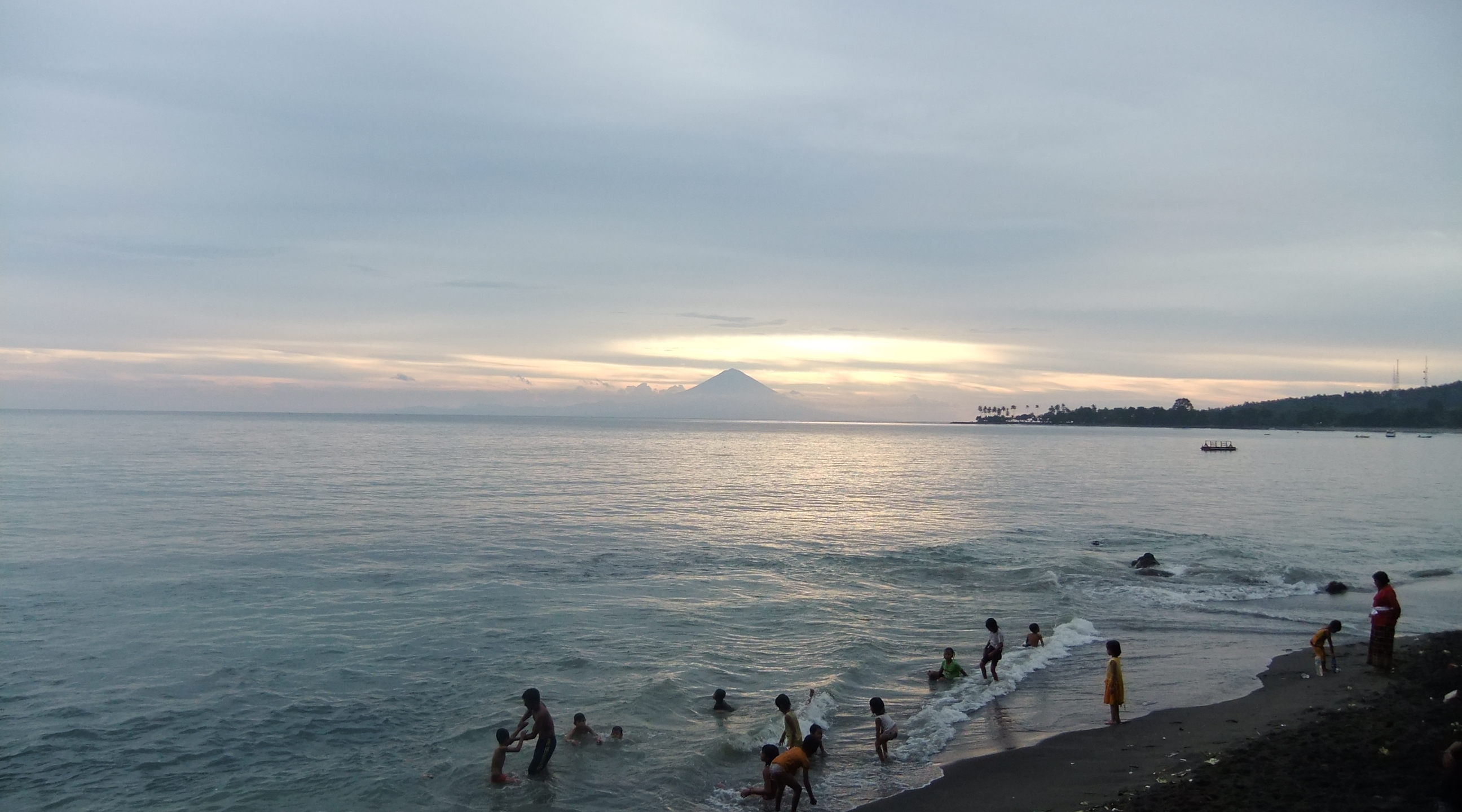 View of part of Senggigi Beach by Pura Batubolong